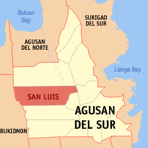 Map of the Agusan del Sur showing the location of San Luis